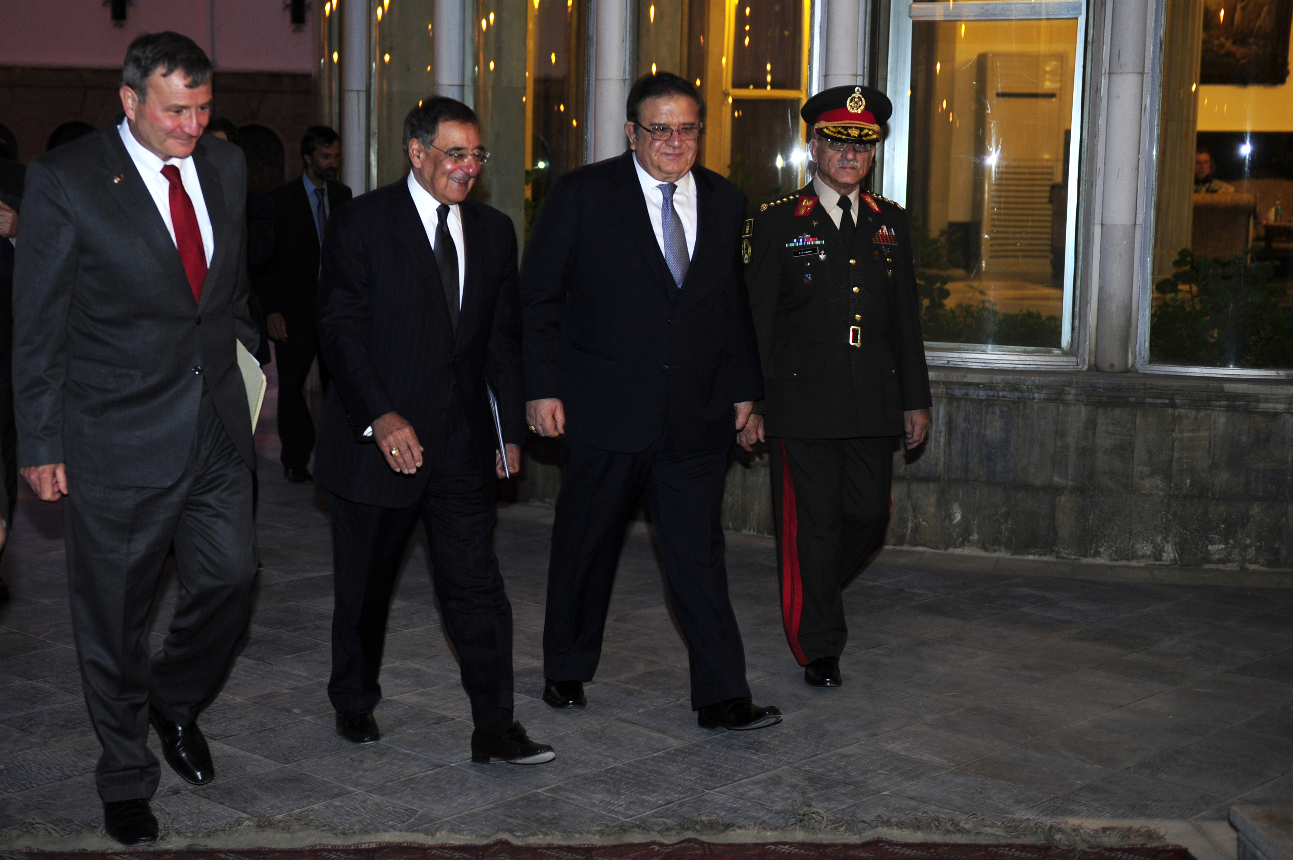 U.S. Defense Secretary Leon E. Panetta walks with U.S. Ambassador Karl W. Eikenberry, left, and Afghan Defense Minister Gen. Abdul Rahim Wardak as he arrives at the presidential palace in Kabul, Afghanistan, July 9, 2011. DOD photo by U.S. Air Force Tech. Sgt. Jacob N. Bailey